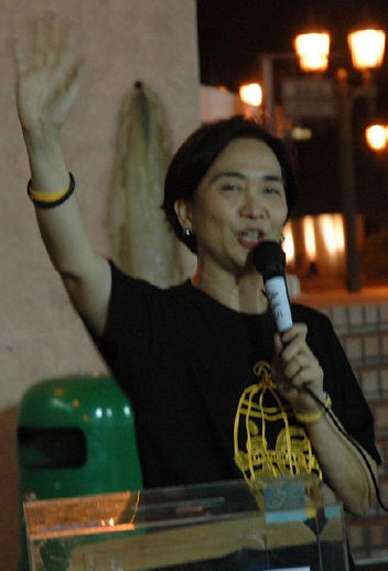 Emily Lau Flickr image: source Attribution: kingofhiking